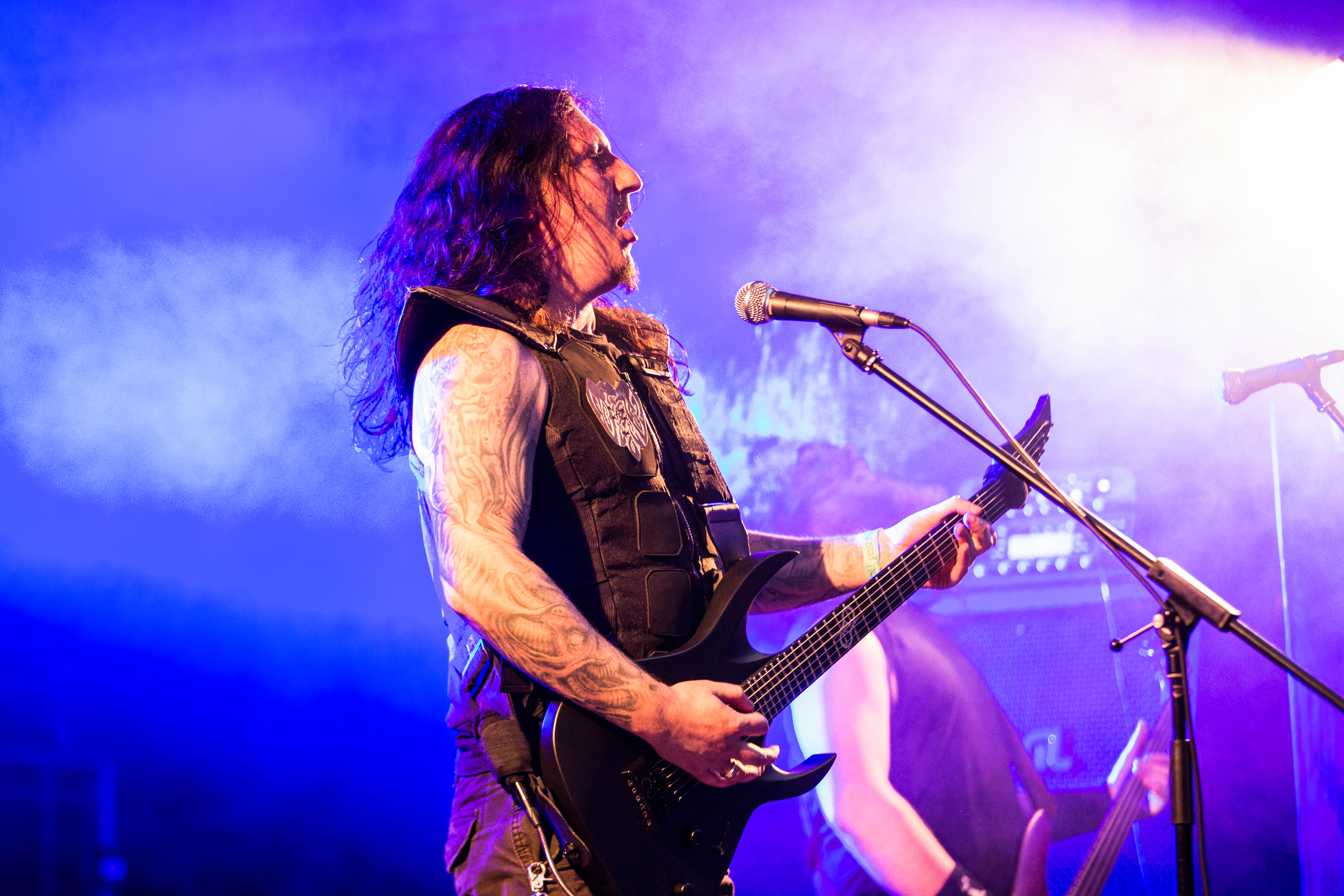 The German melodic death metal band Suidakra at the Dark Troll Open Air 2017 in Bornstedt/Germany.